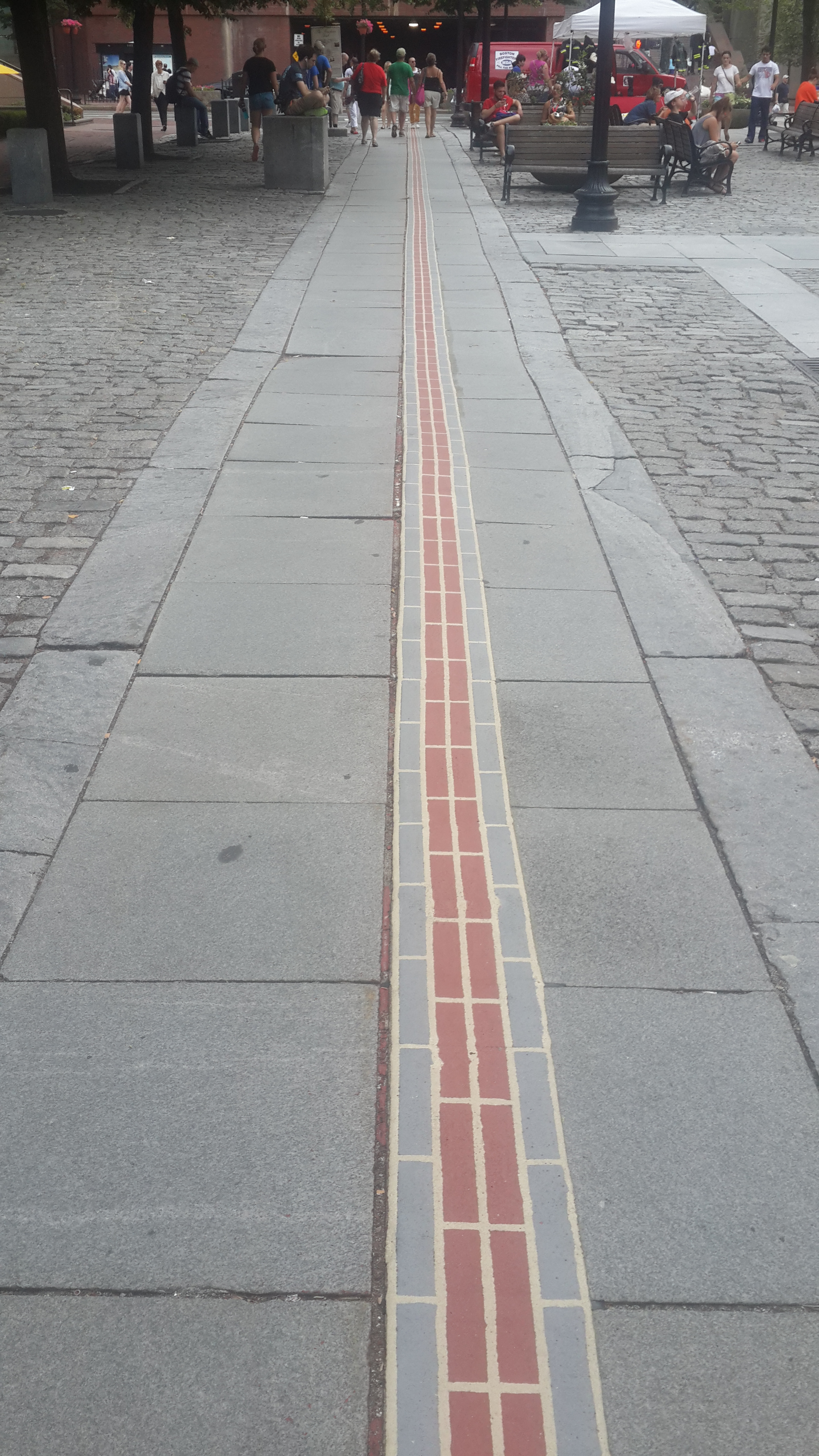 Boston Freedom Trail, made of red brick